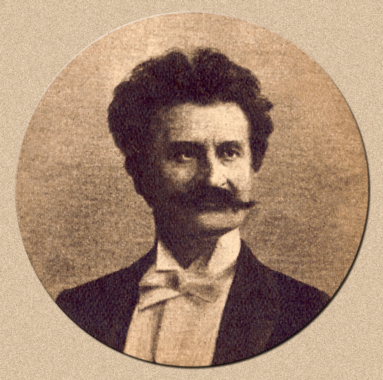 Johann Strauss II